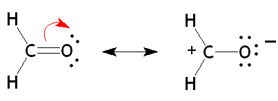 resonance in formaldehyde